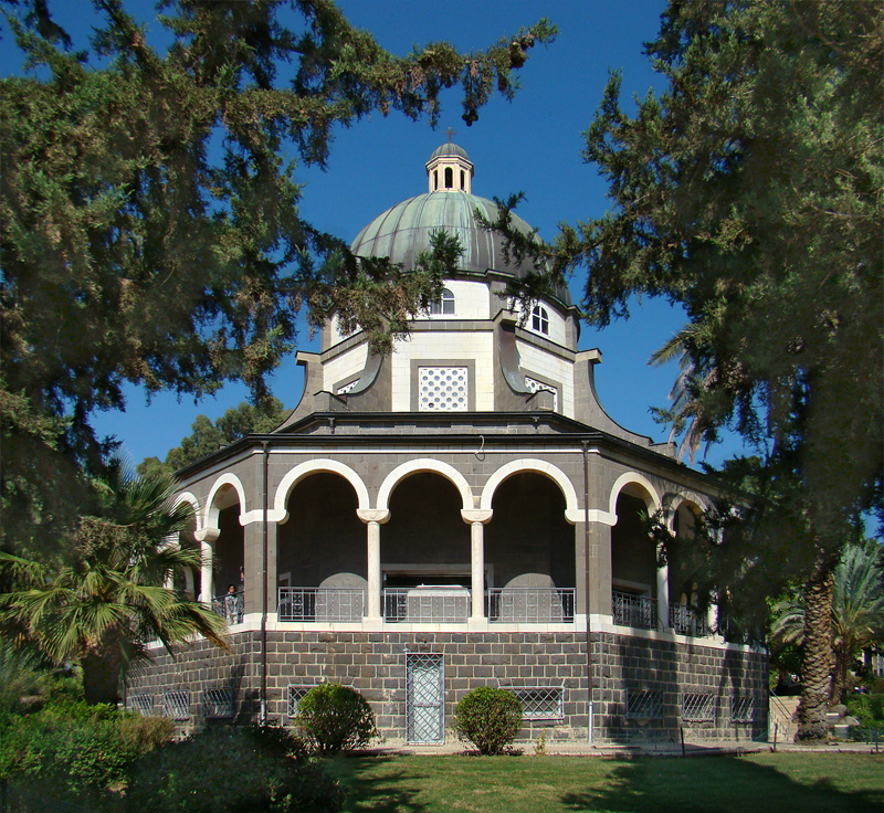 Mount of Beatitudes, Israel.